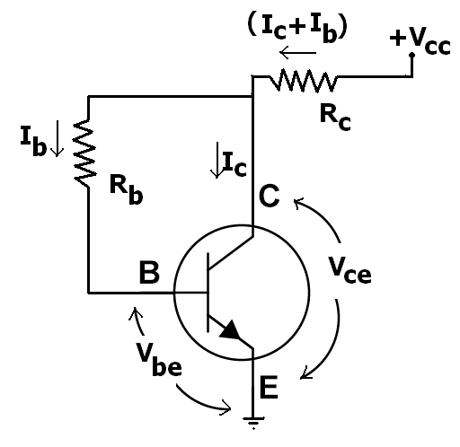 Collector to base bias circuit diagram